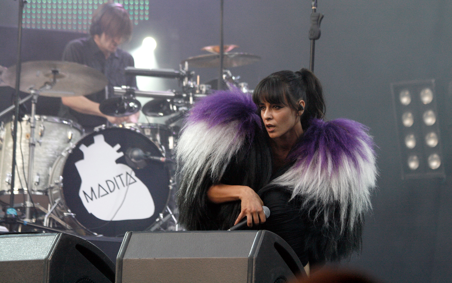 Madita - concert at the Donauinselfest in Vienna.